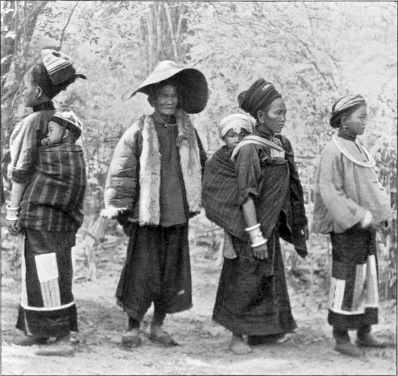 Women and girls from the Shan tribe.